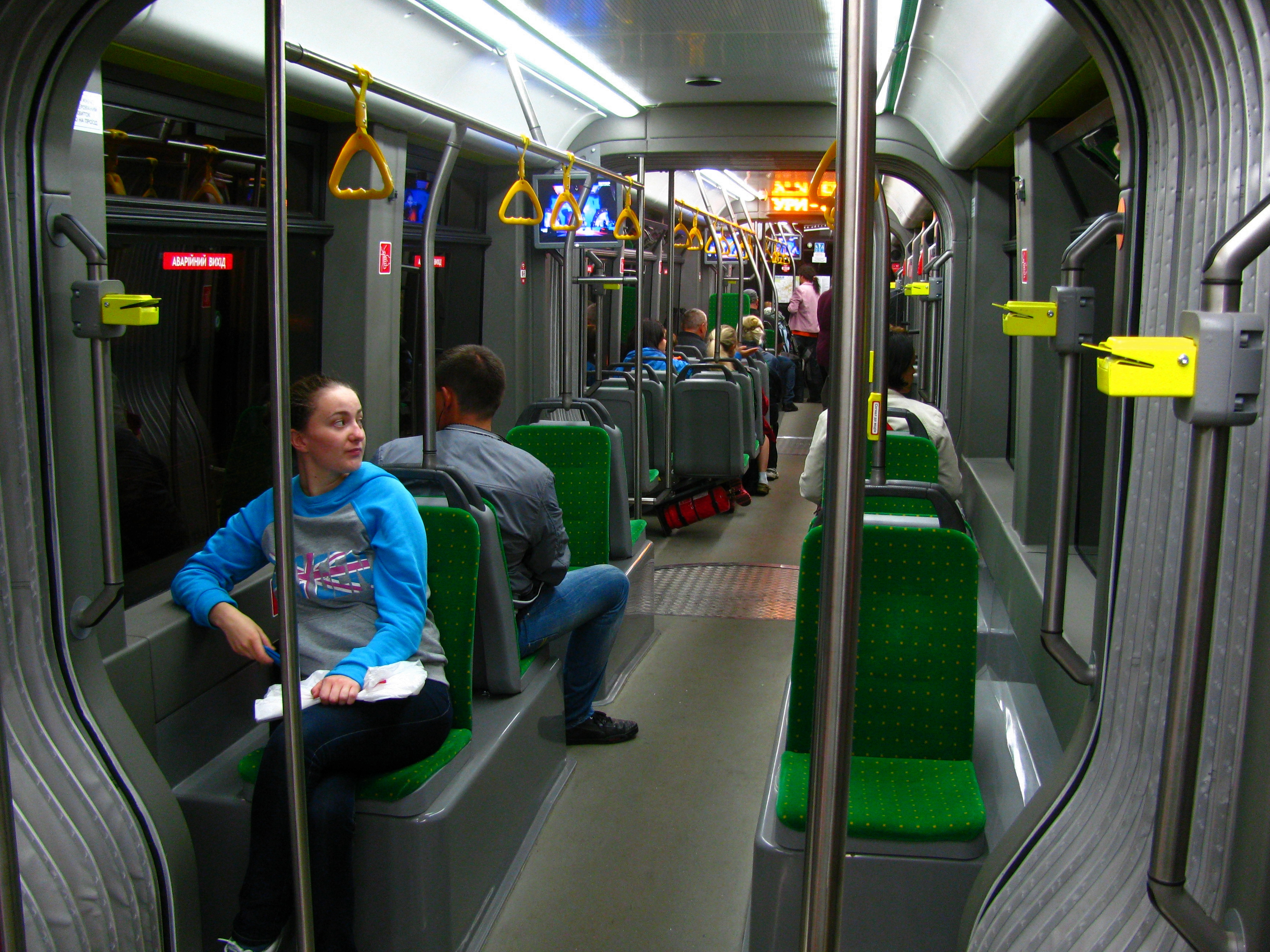 Electron T5L64 inside in Lviv, Ukraine